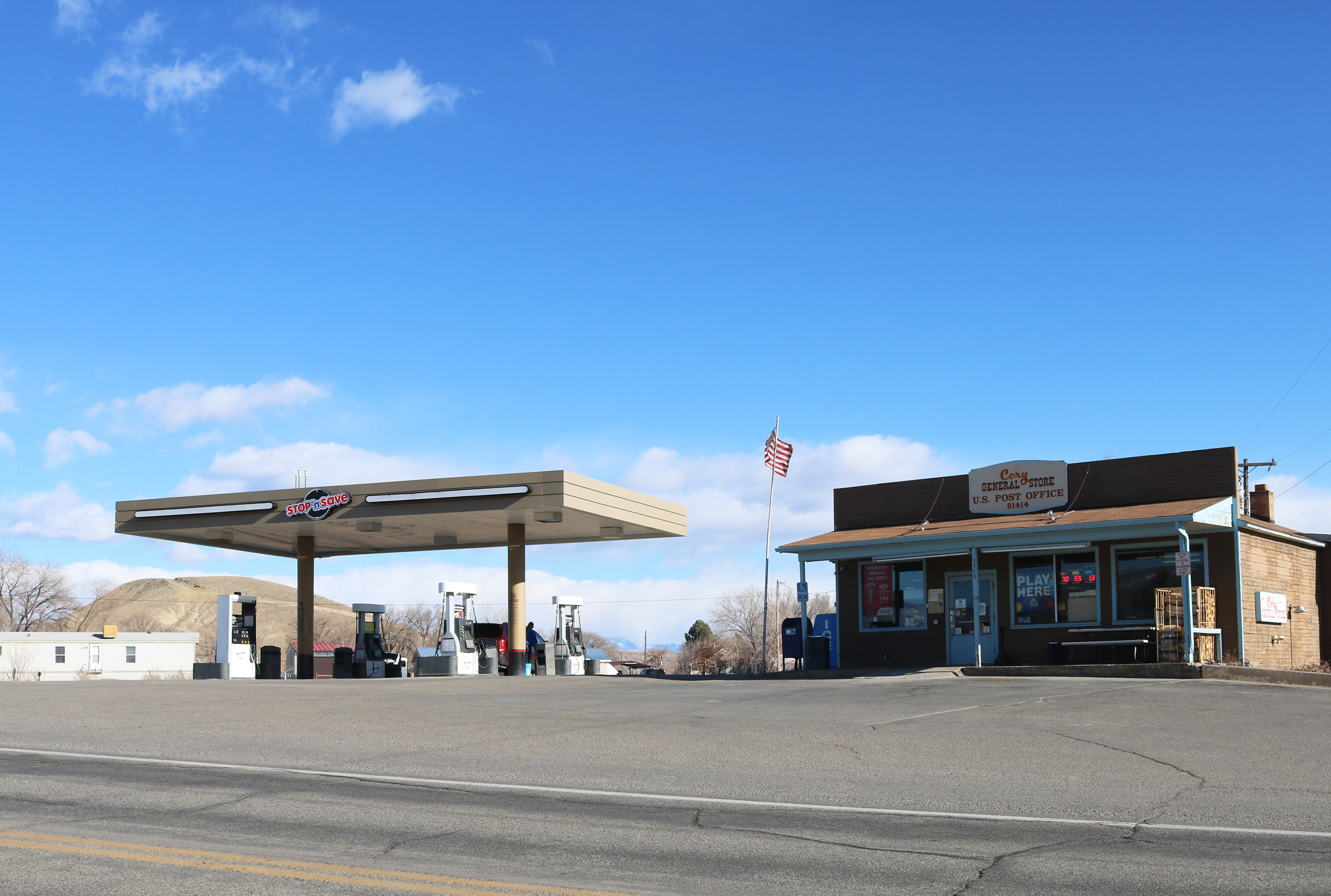 A view of Cory, Colorado, a neighborhood of Orchard City. The picture shows the Cory General Store and U.S. Post Office at 9340 Highway 65, Cory, Colorado 81414.